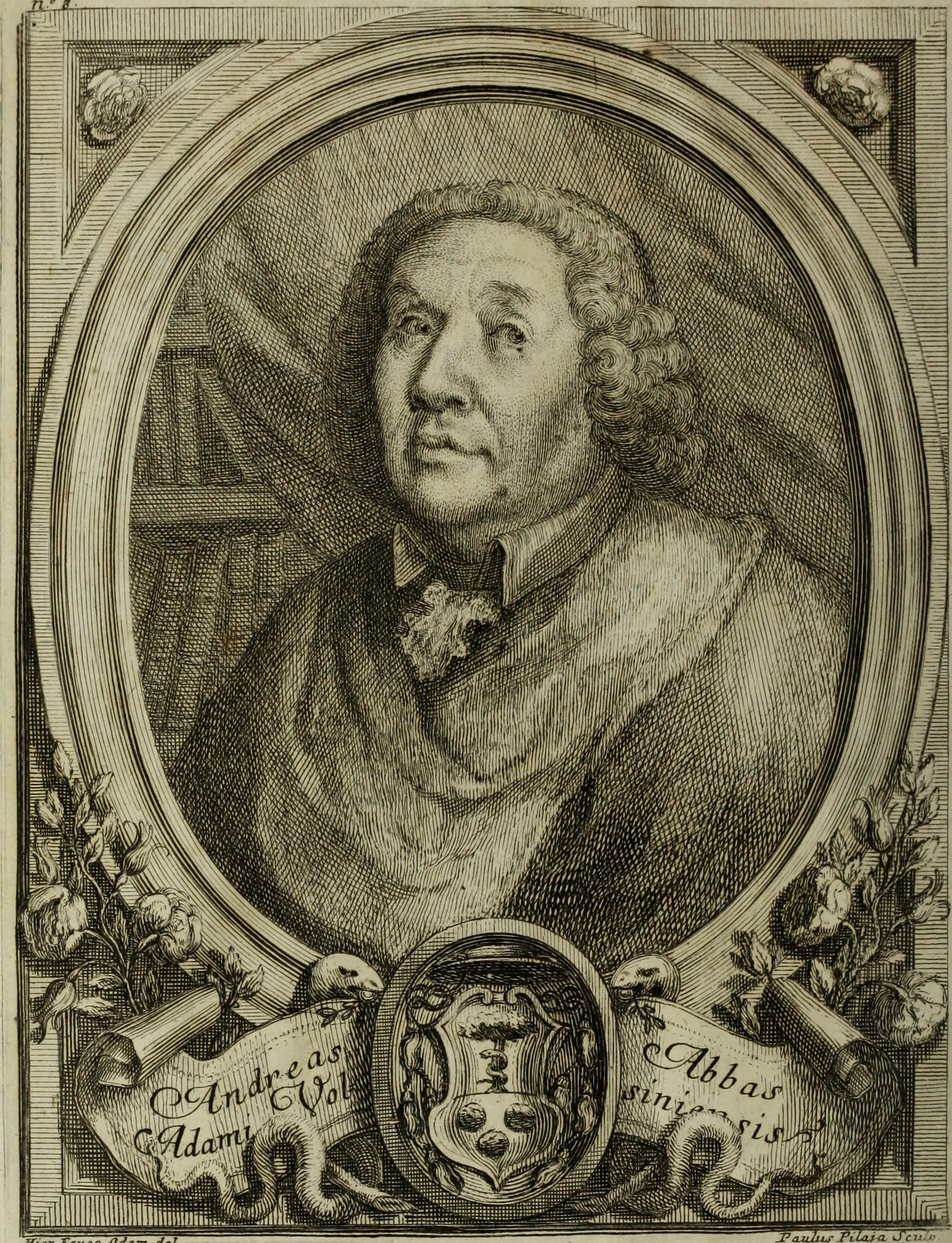 Title: Storia di Volseno Year: 1737 (1730s) Authors: Adami, Andreas Cavagna Sangiuliani di Gualdana, Antonio, conte, 1843-1913, former owner. IU-R Subjects: Bolsena (Italy) History Publisher: Roma Text Appearing Before Image: ' Text Appearing After Image: JTier-EqiLes Odairv del STORI A D I VOLS E NO Antica Metropoli della Tofcana DESCRITTA IN QUATTRO LIBRI DALVABBATE Dt ANDREA ADAMT Cittadino Originario di Venezia, Decano de Canton* della Cappella Pontificia, Benefiziato della Patriarcale di Santa Maria Maggiore, P. A. ed Accademico Etrufco, E DEDICATA Alia Gloriofa Verginc, e Martire S. CRISTINA CONCITTADINA SUA TOMO PRIMO.storiadivolseno00adam